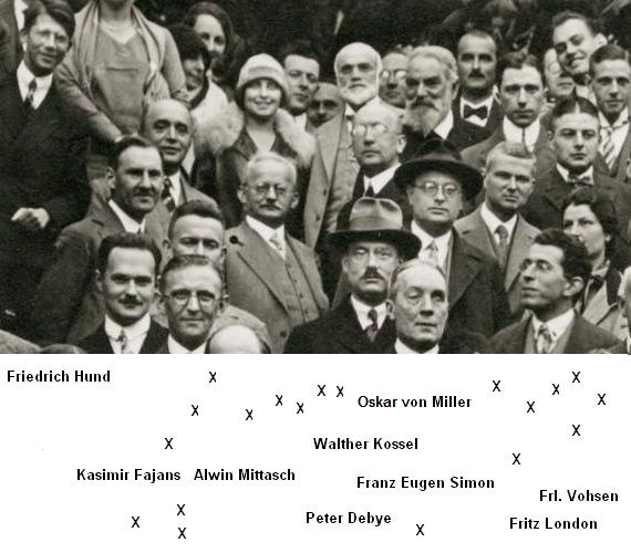 Bunsen congress 1928: Hund, O. v. Miller, Kossel, Fajans, Mittasch, Simon, Vohsen, Debye, London (siehe Fußnote unter Bild).